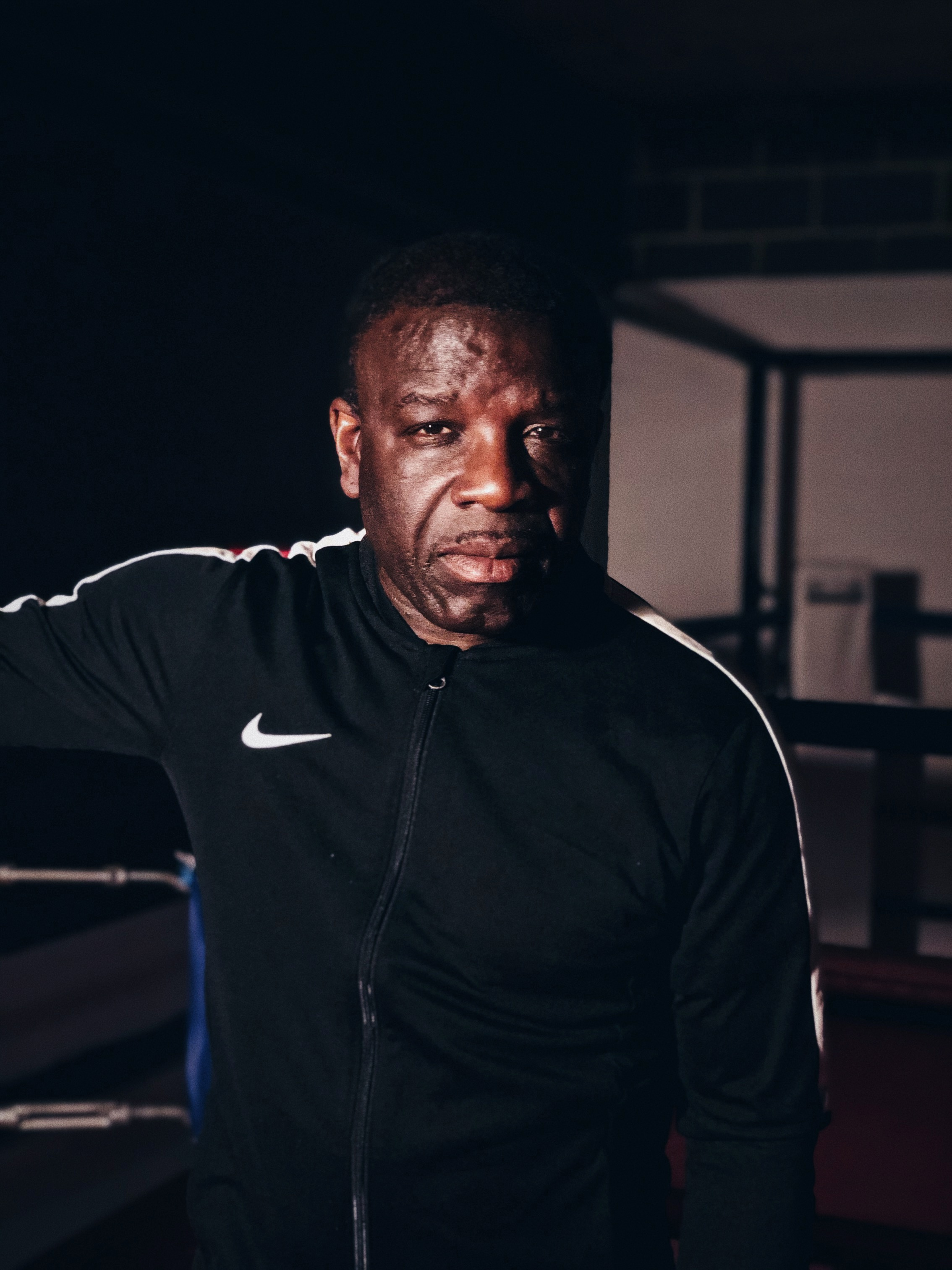 Clinton McKenzie 2019 taking in the gym, London